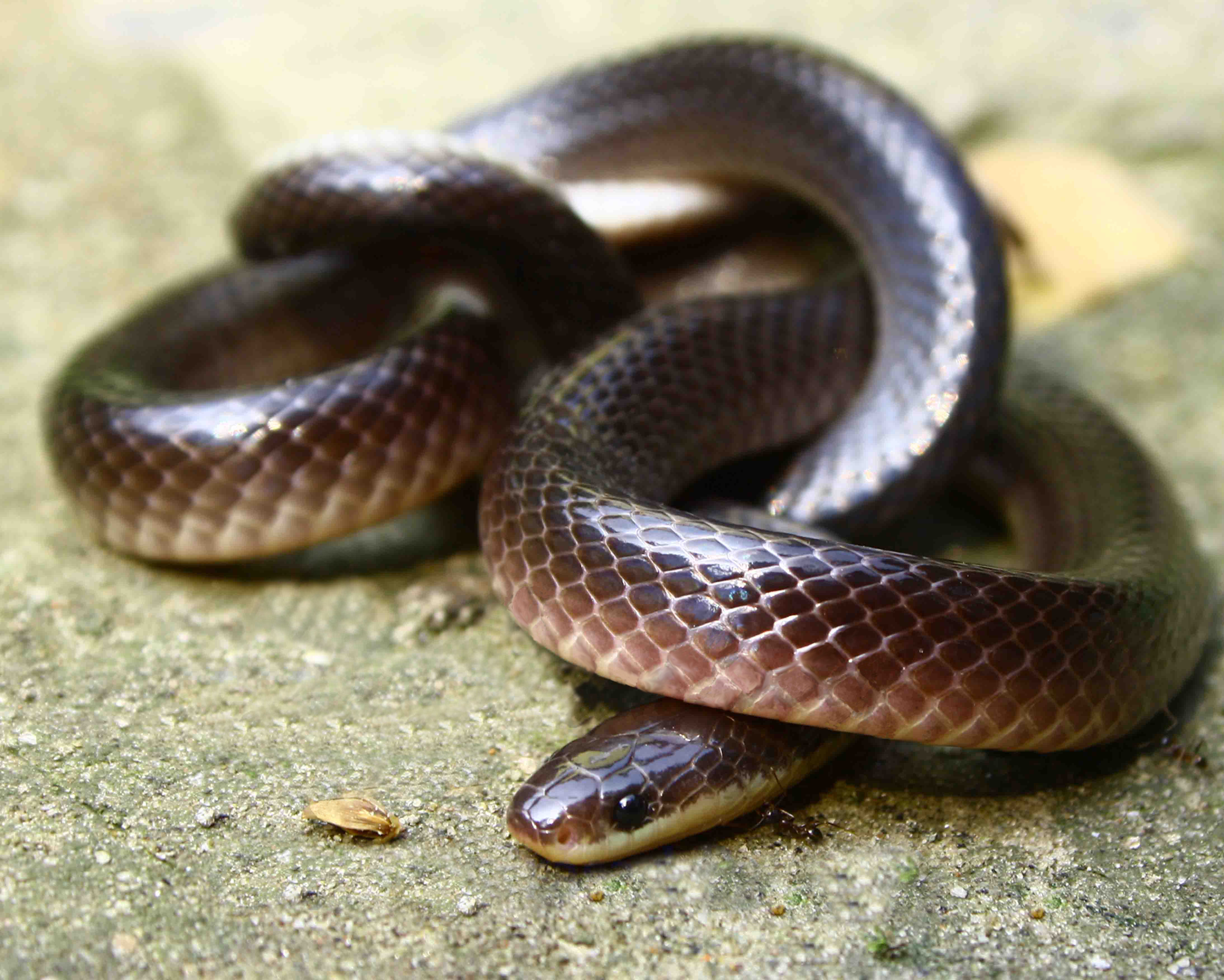 Bungarus lividus is the most mysterious snake among the genus Bungarus. It is too much difficult to different it from Bungarus niger (greater black krait) for nearly same morphological characteristics, as well as for same distribution range.